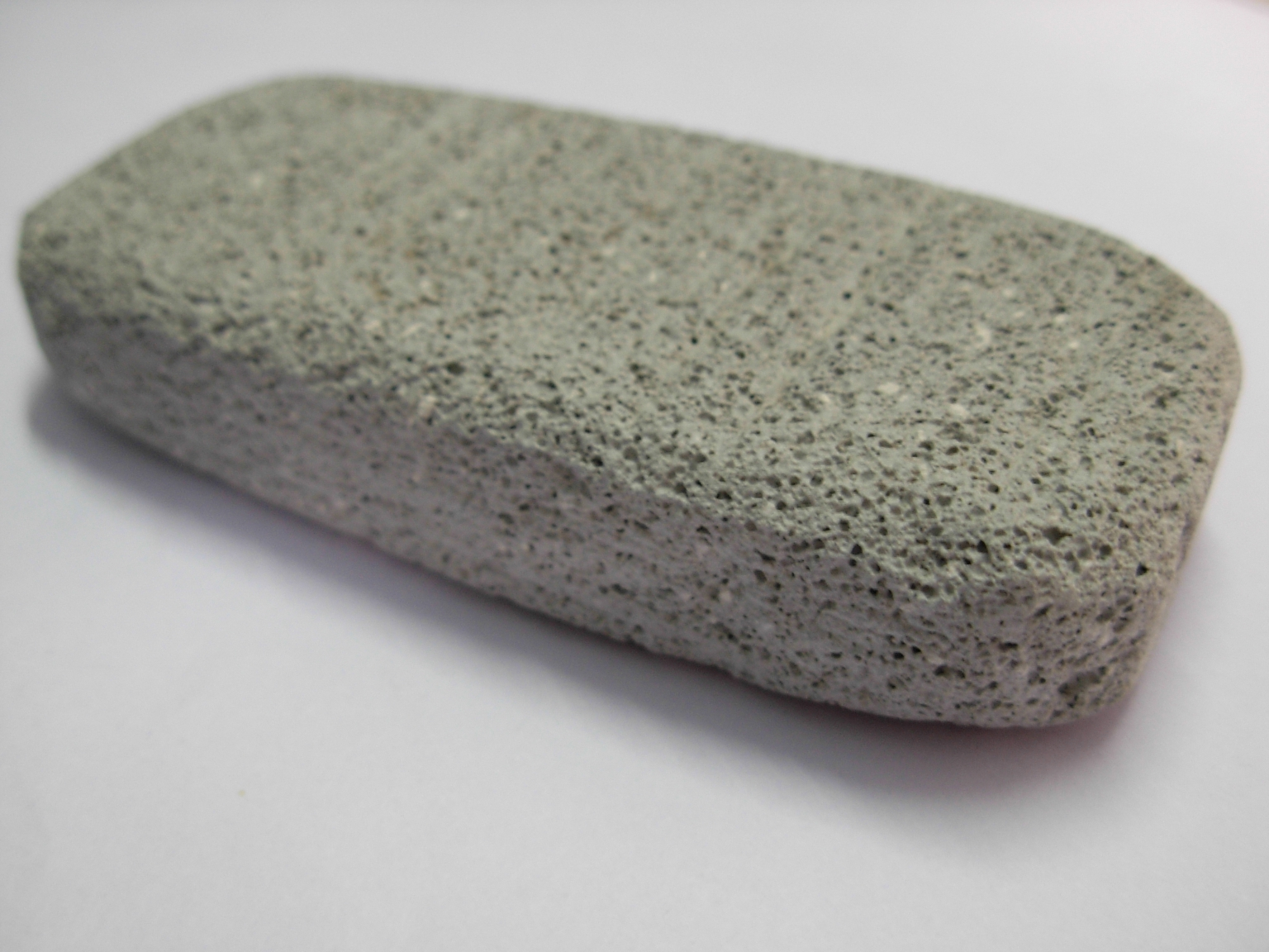 A close-up of a Pumice Stone.